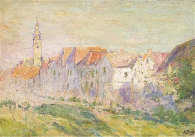 Anna Boch (1848-1936): A view of Veere, Zeeland. 38.5 x 53.5 cm. Oil on canvas laid on board.